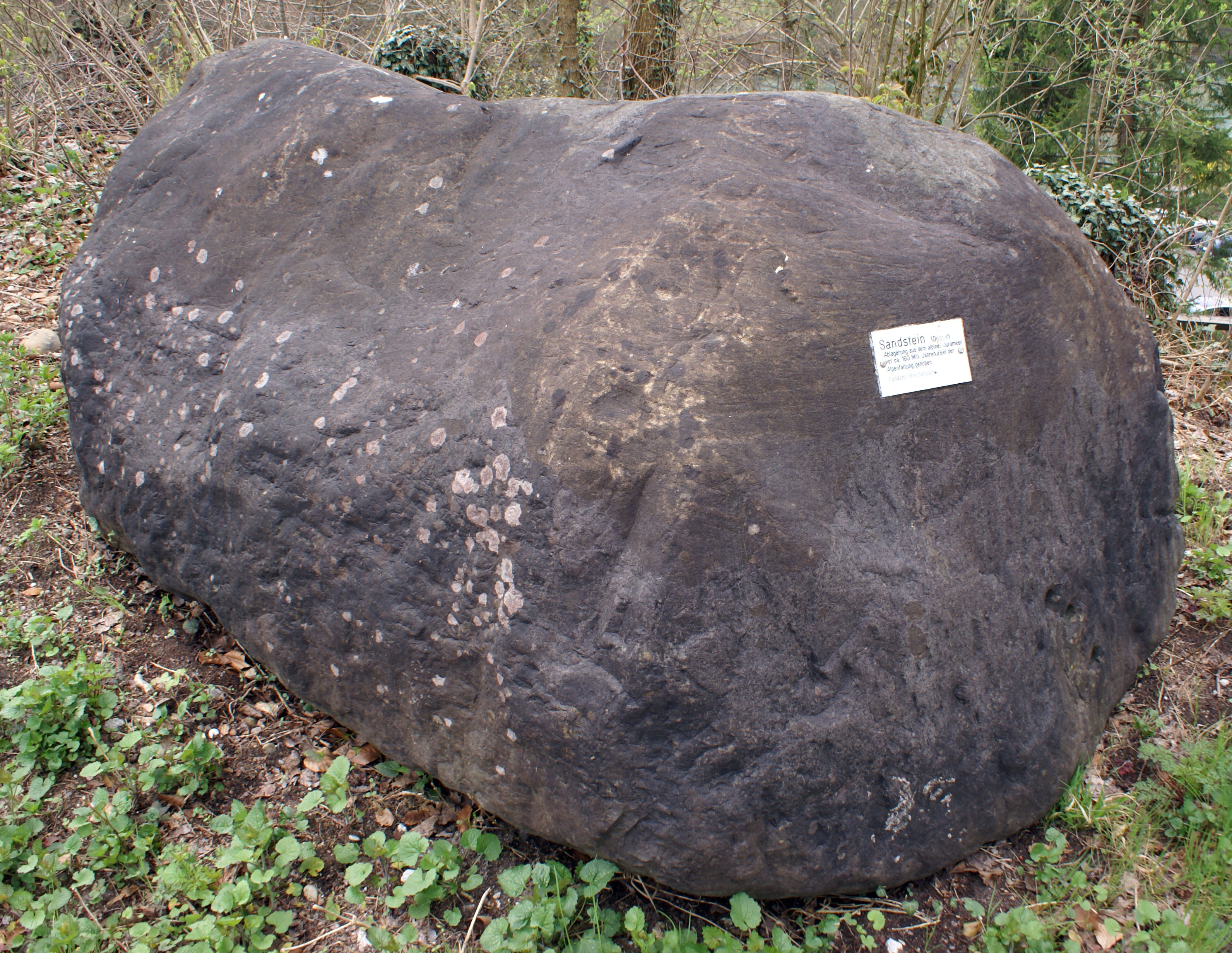 Middle Jurassic sandstone.